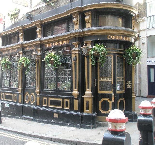 The Cockpit, St Andrew's Hill